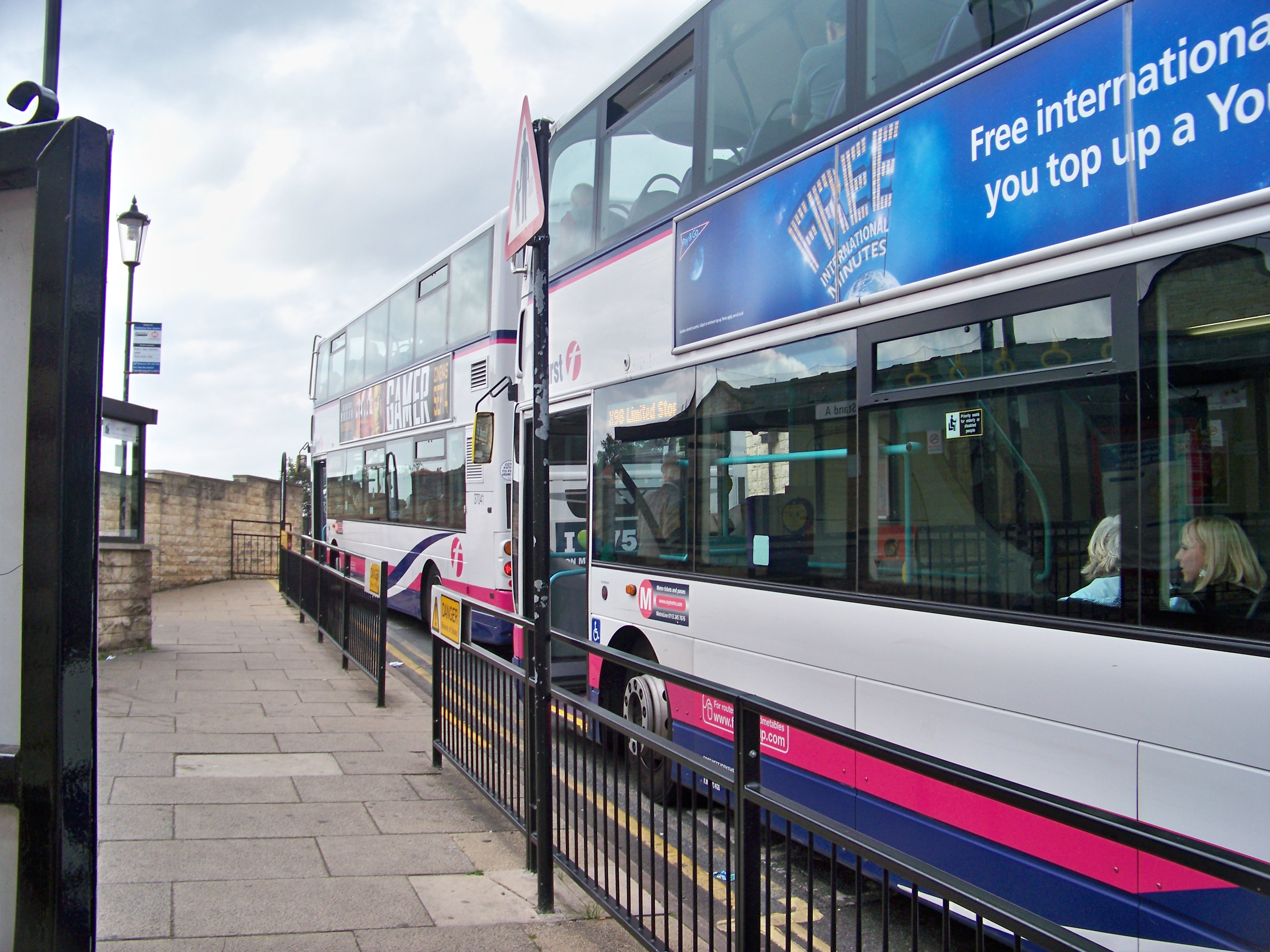 First Leeds buses at Wetherby bus station, Wetherby, West Yorkshire. Taken on the afternoon of Tuesday 15th September 2009.